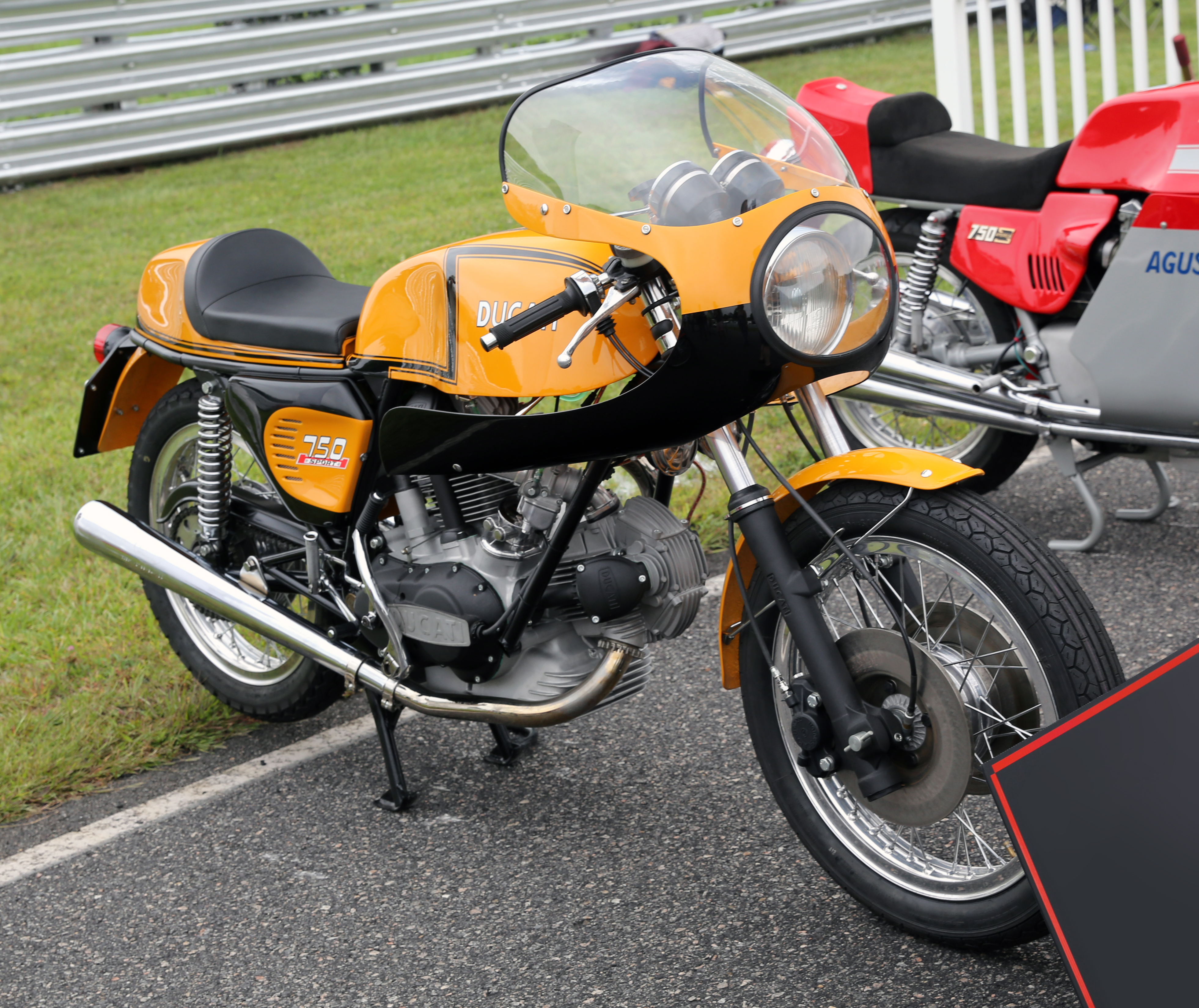 1972 Ducati 750 Sport with a fairing seen at the 2014 Lime Rock Concours d'Élegance. Nicknamed the "Z-stripe" after the tank decoration. Less than 40 were built in this configuration; part of the Robert Machinist collection.